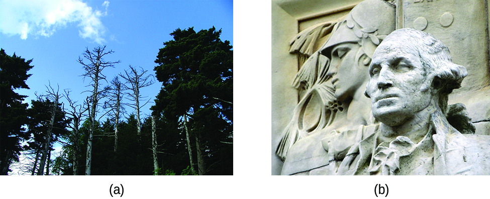 Image or illustration from the book: Chemistry Caption:Missing, please see book Book summary:Chemistry is designed for the two-semester general chemistry course. For many students, this course provides the foundation to a career in chemistry, while for others, this may be their only college-level science course. As such, this textbook provides an important opportunity for students to learn the core concepts of chemistry and understand how those concepts apply to their lives and the world around them. The text has been developed to meet the scope and sequence of most general chemistry courses. At the same time, the book includes a number of innovative features designed to enhance student learning. A strength of Chemistry is that instructors can customize the book, adapting it to the approach that works best in their classroom.